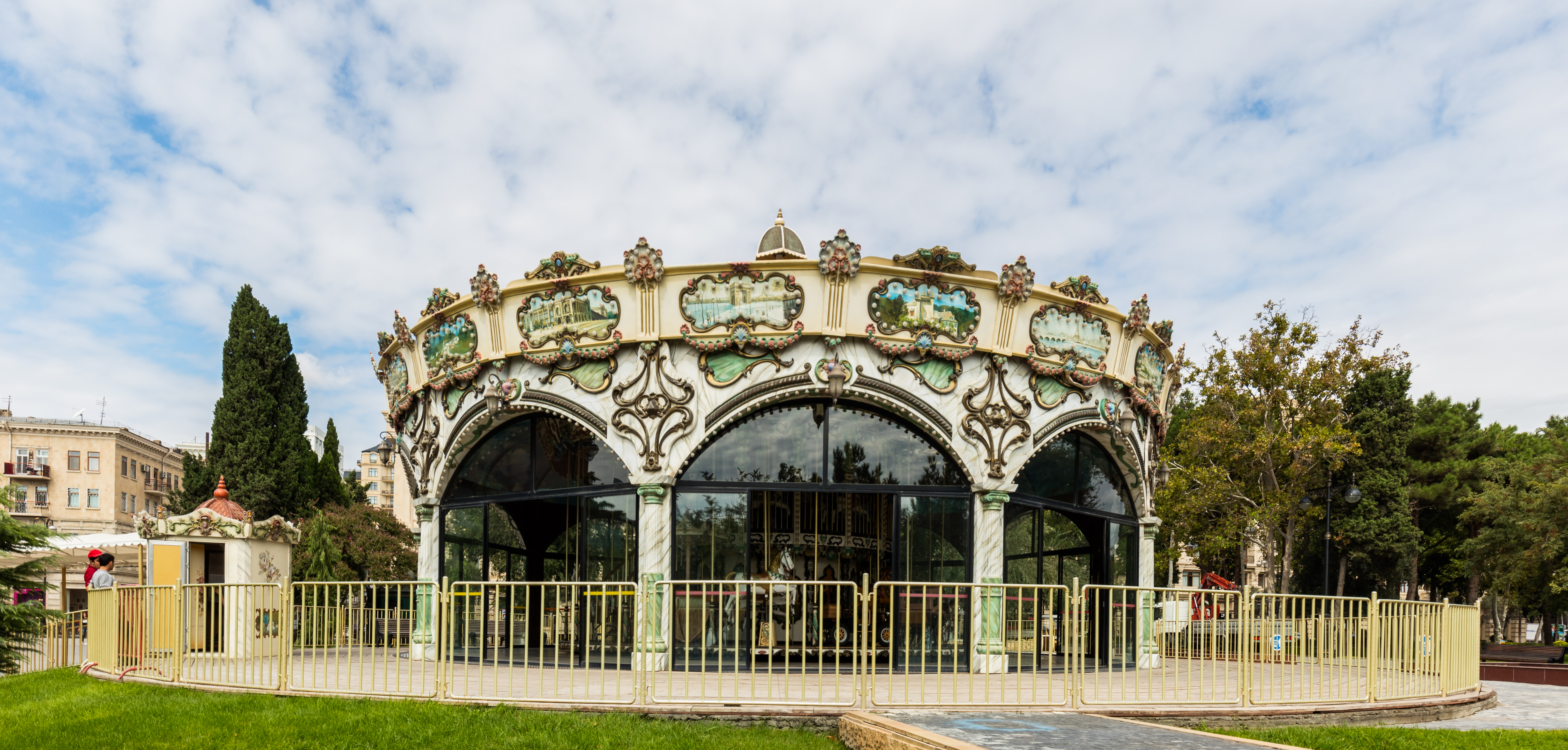 Carousel, Baku, Azerbaijan